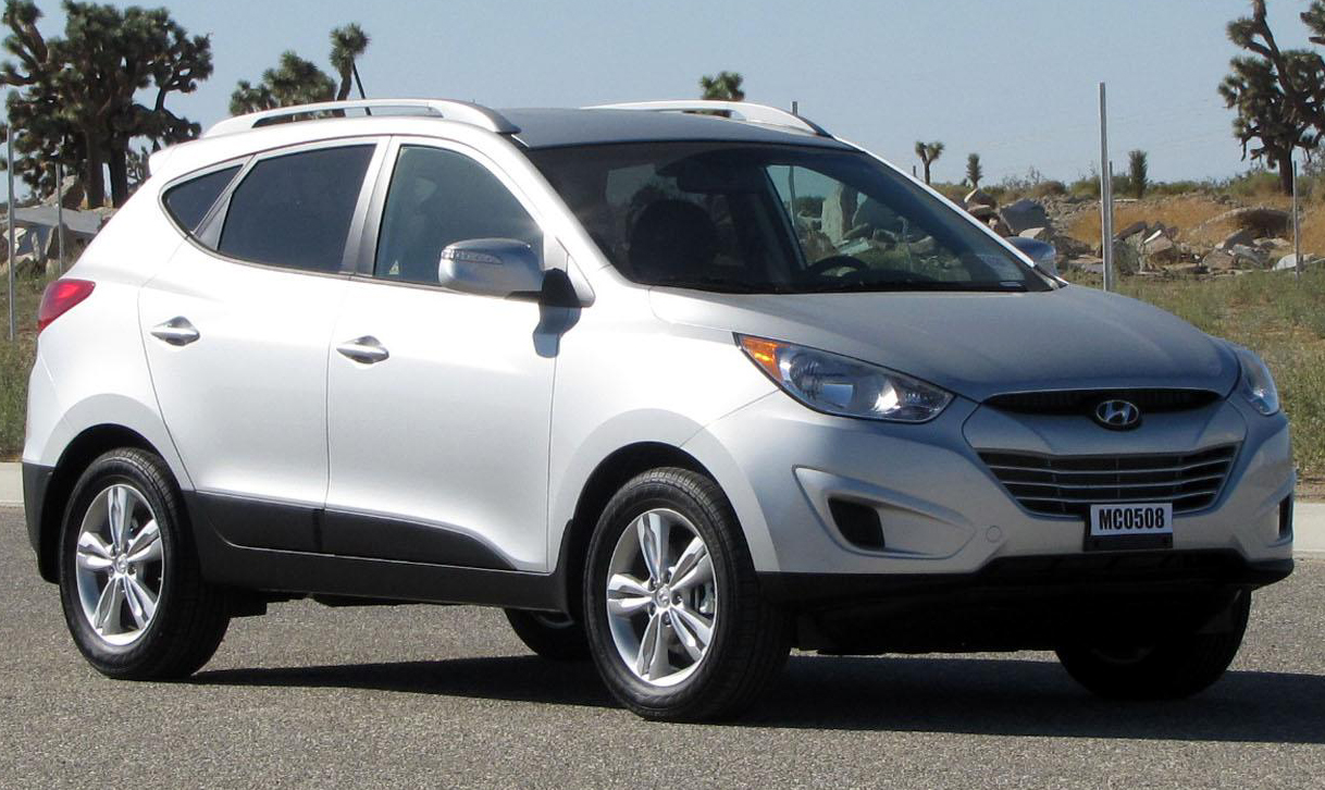 2012 Hyundai Tucson photographed in USA.